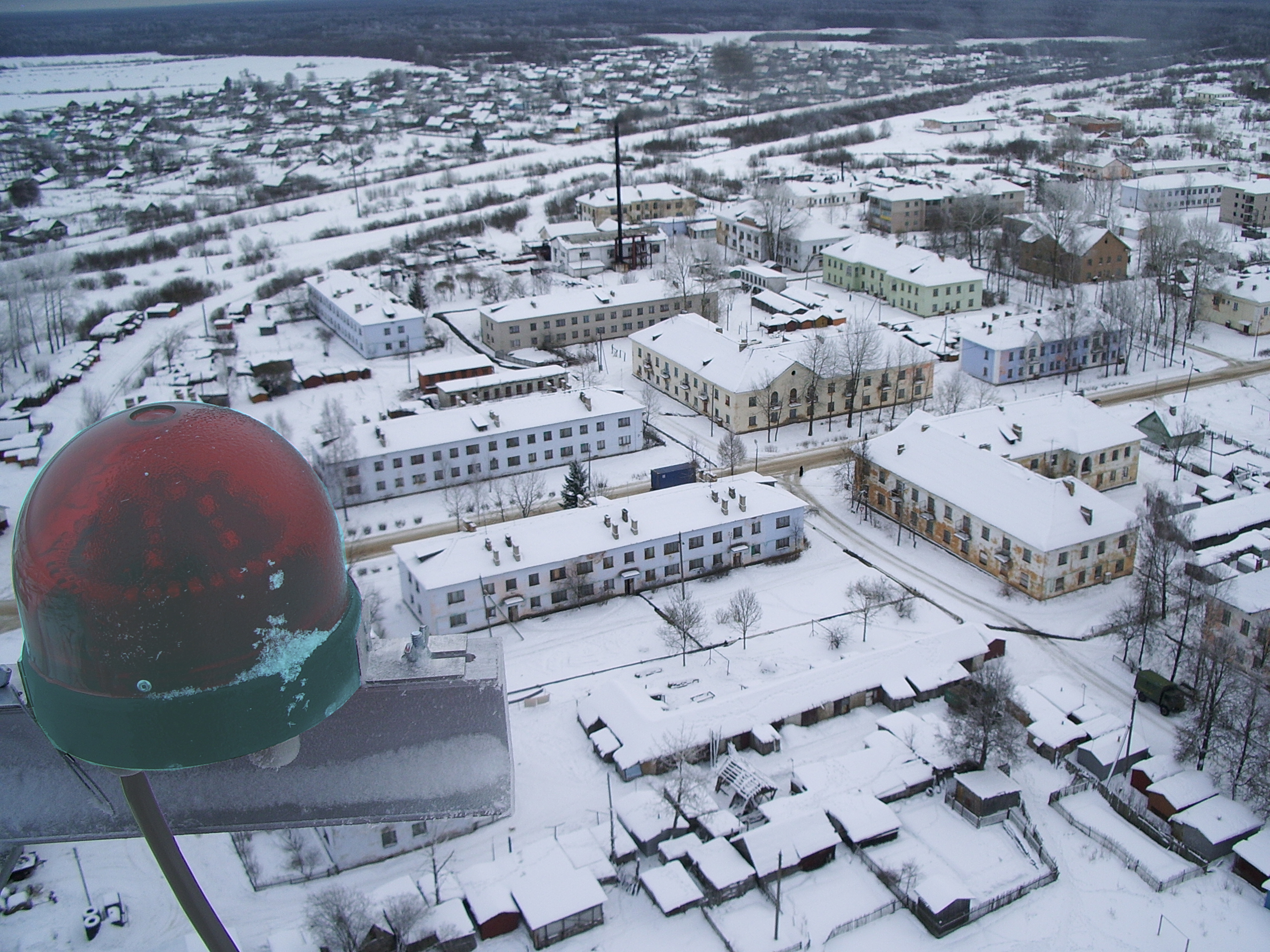 Tiosovo-Netylsky village. Novgorodsky district, Novgorod oblast, Russia